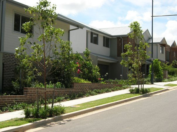 Riverwalk, Ermington, New South Wales